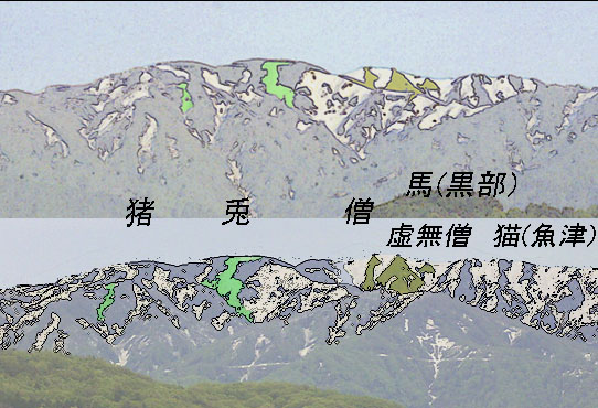 Yukigata on the Mount So in the middle of May